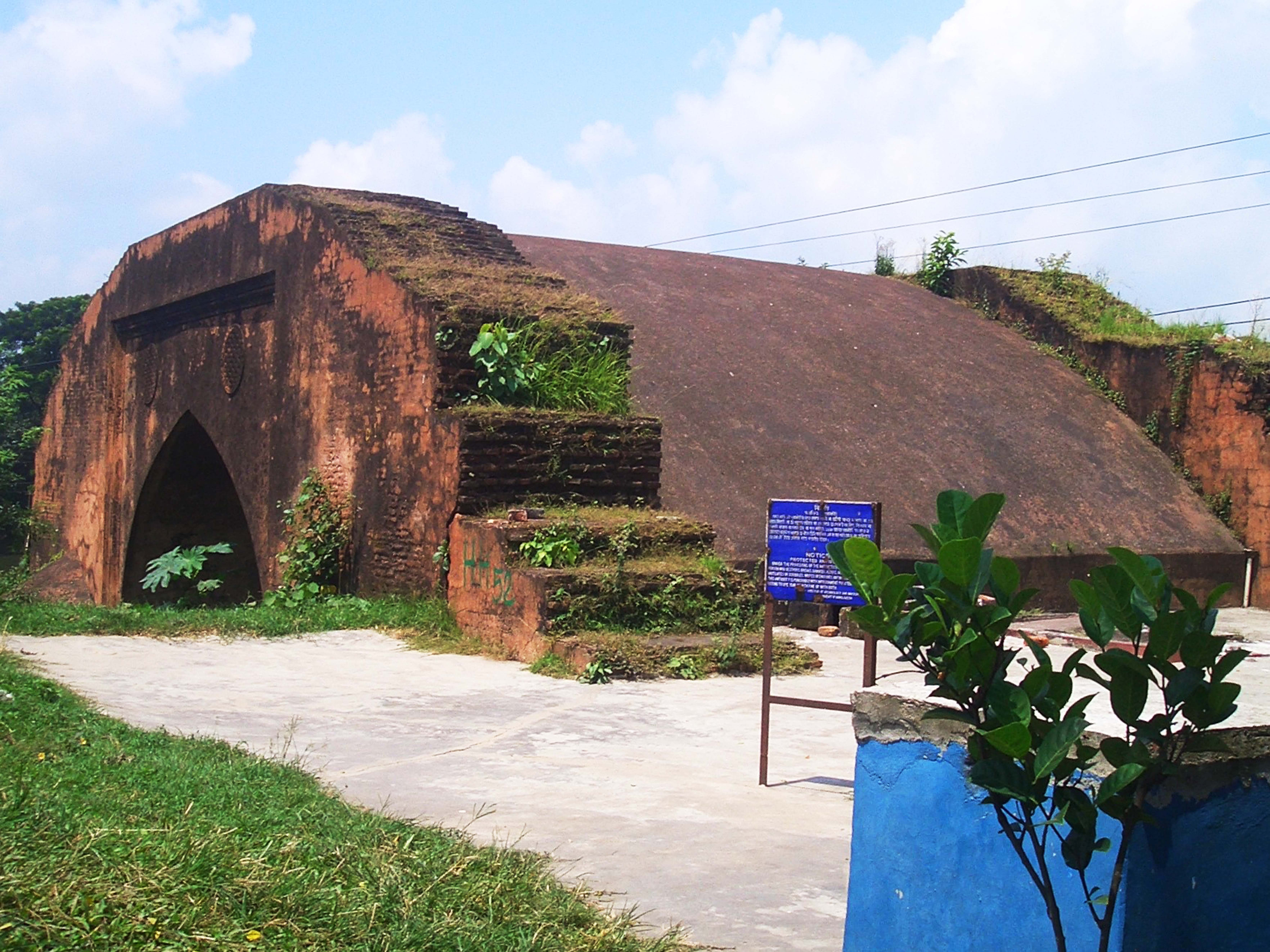 Bariura Old Bridge 2